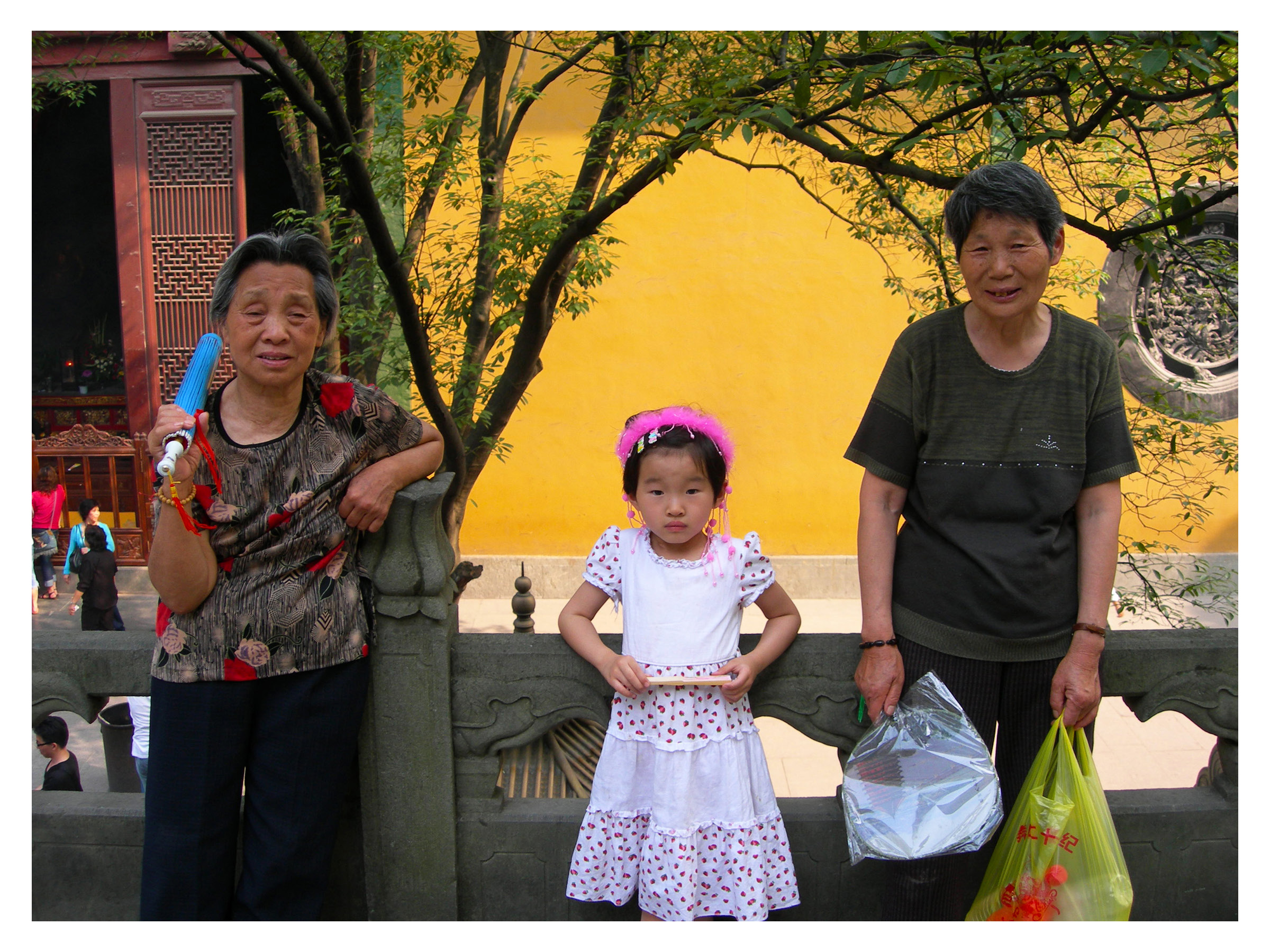 Three Generations, Xian (Great Mosque), photograph by Jan Serr